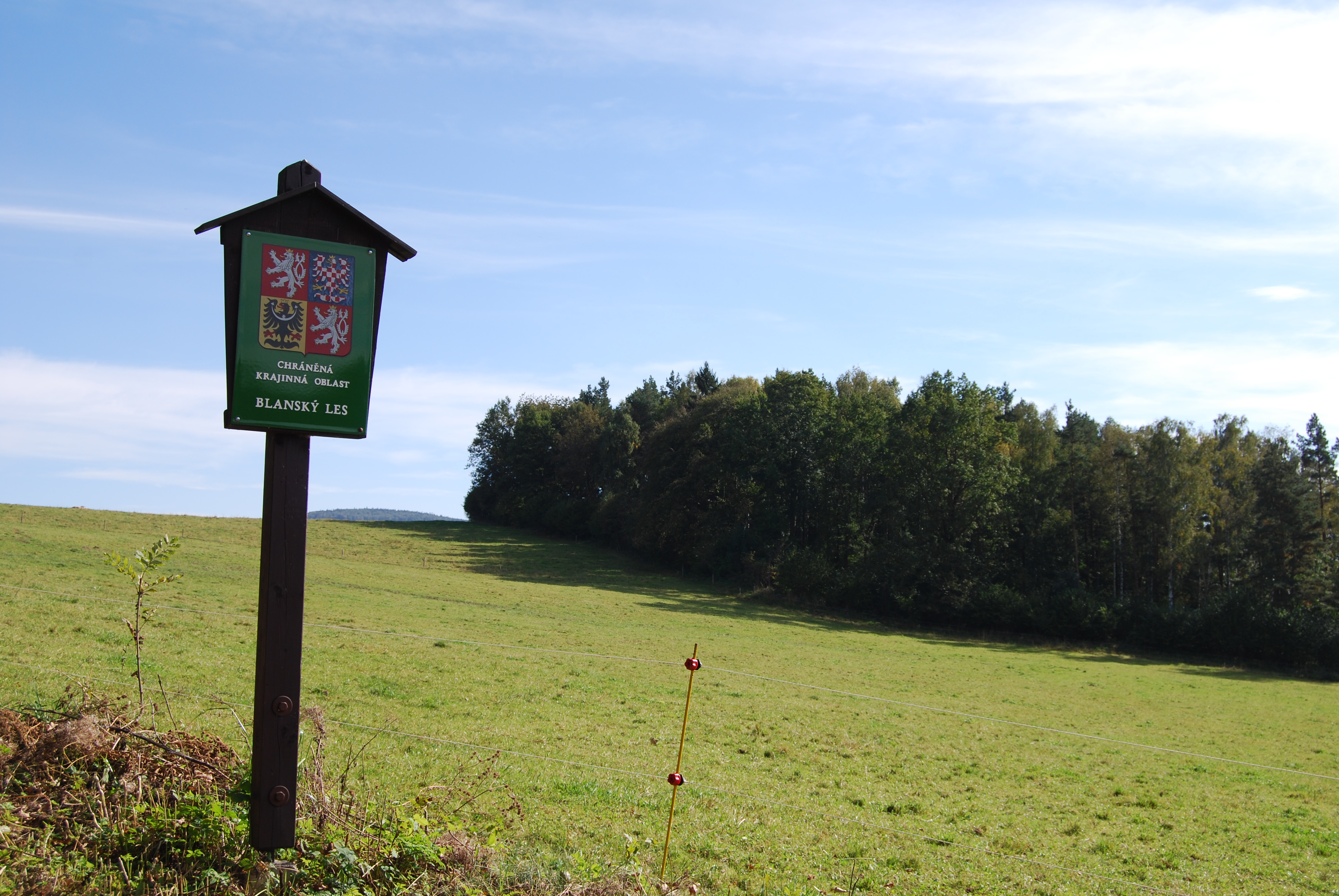 Protect nature area "Blanský les", Czech Republic.